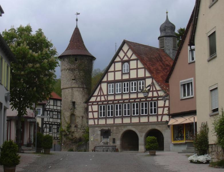 Town hall and old tower (Schimmelturm) in Niederstetten, Germany